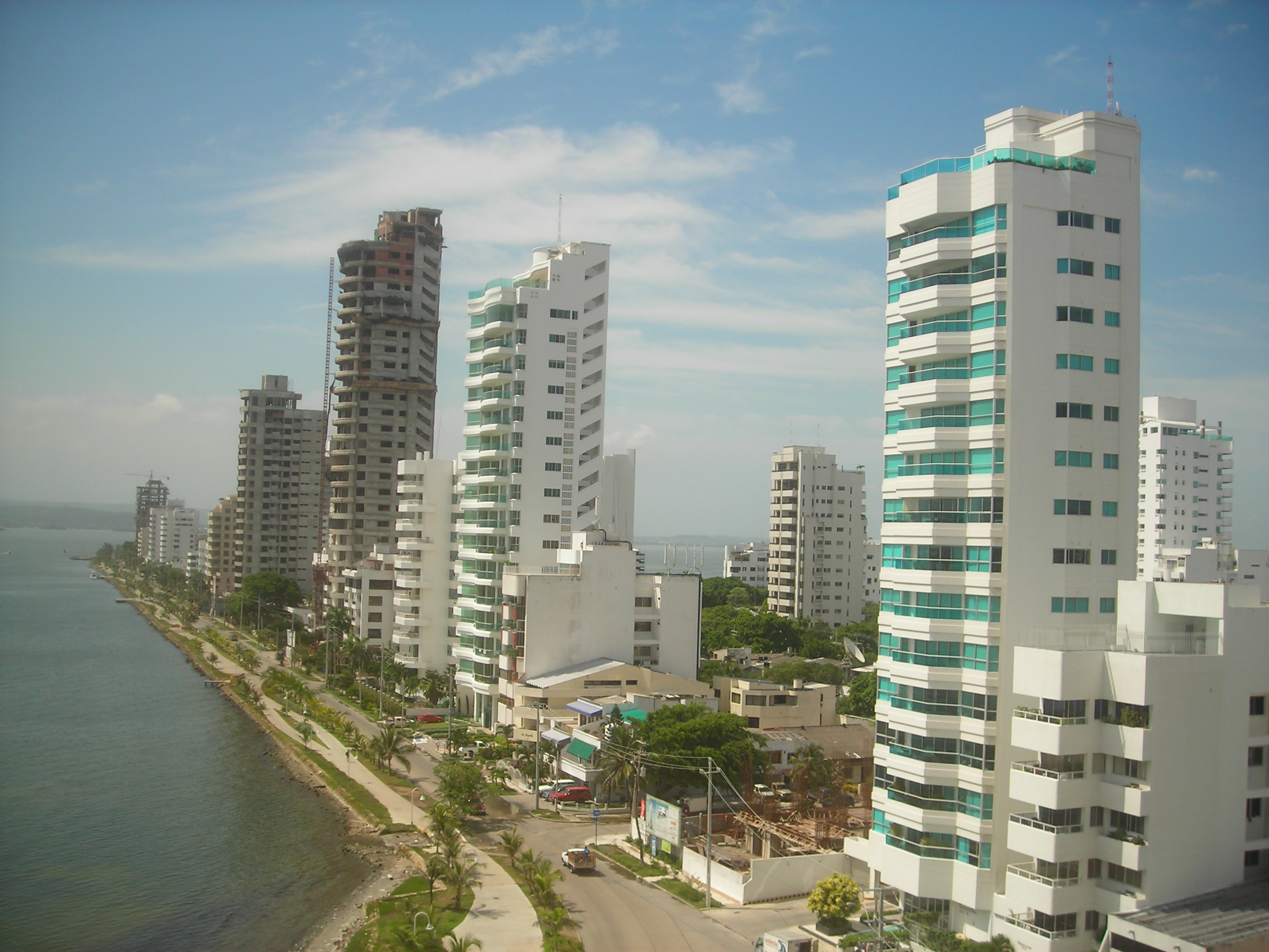 A good view of Cartagena. Una buena vista de Cartagena.